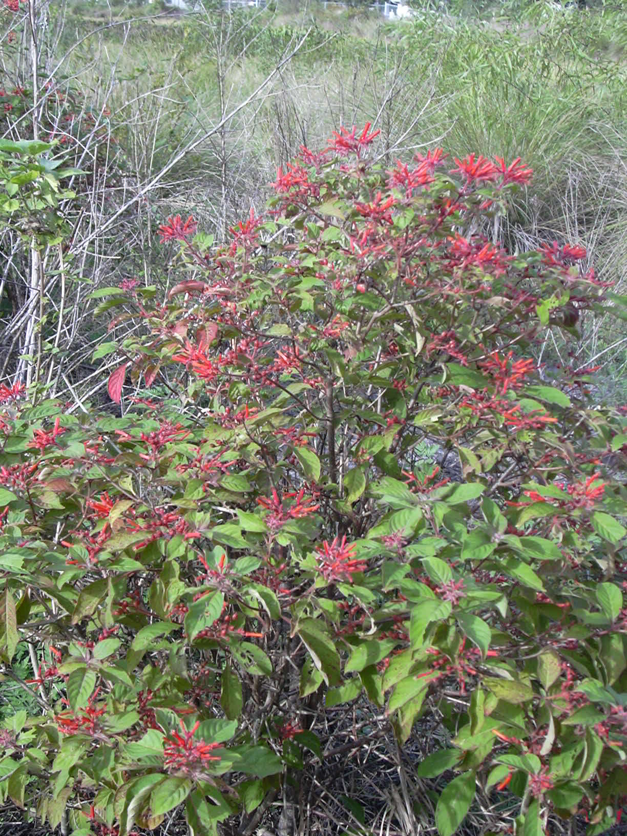 Hamelia patens (habit). Location: Florida, Long Key